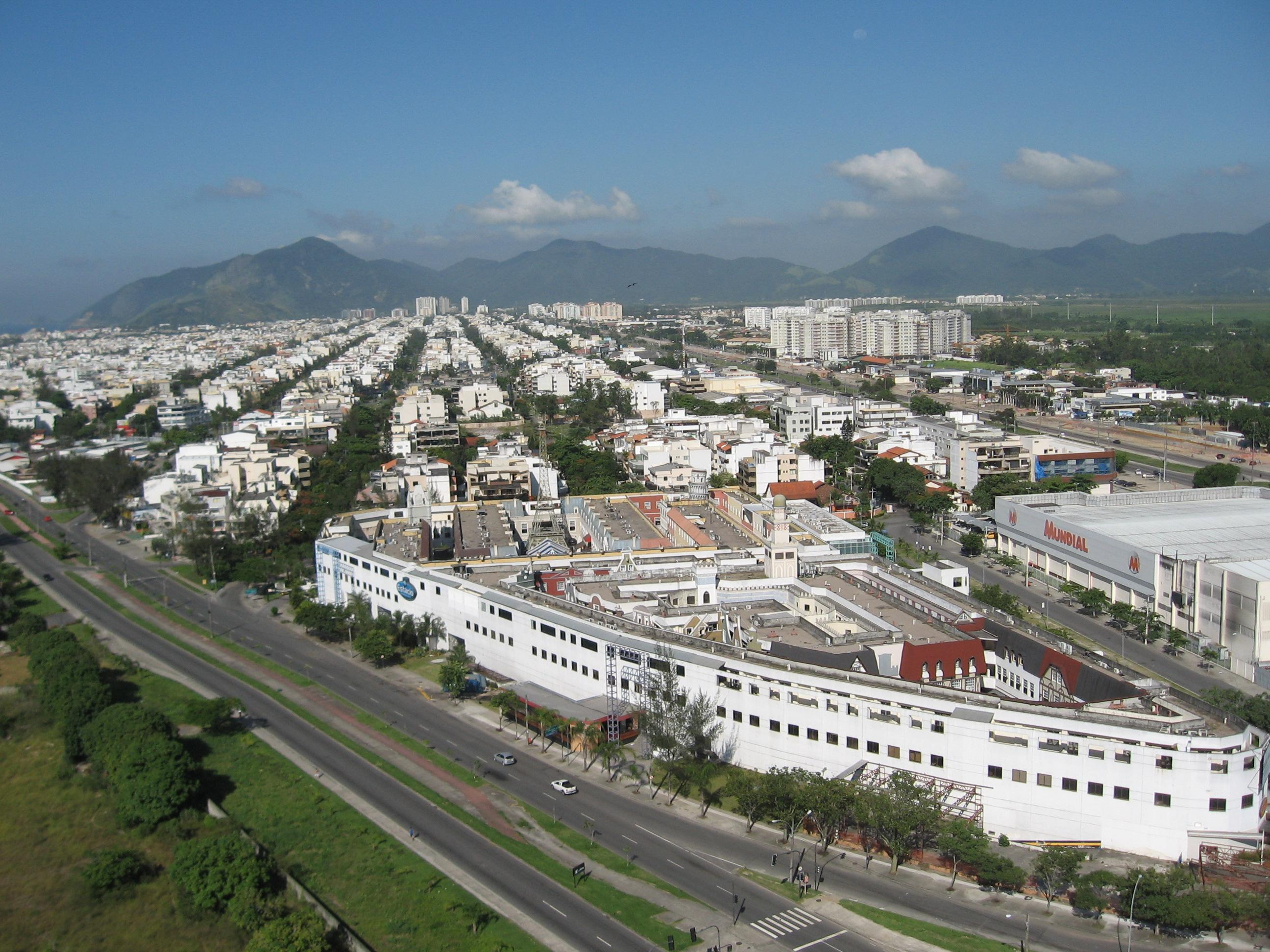 Recreio dos Bandeirantes - Rio de Janeiro - Brazil